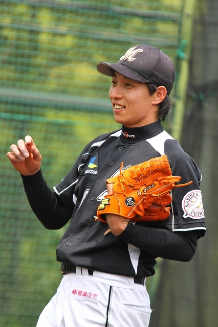 Tadahiro Ogino, pitcher of the Chiba Lotte Marines.